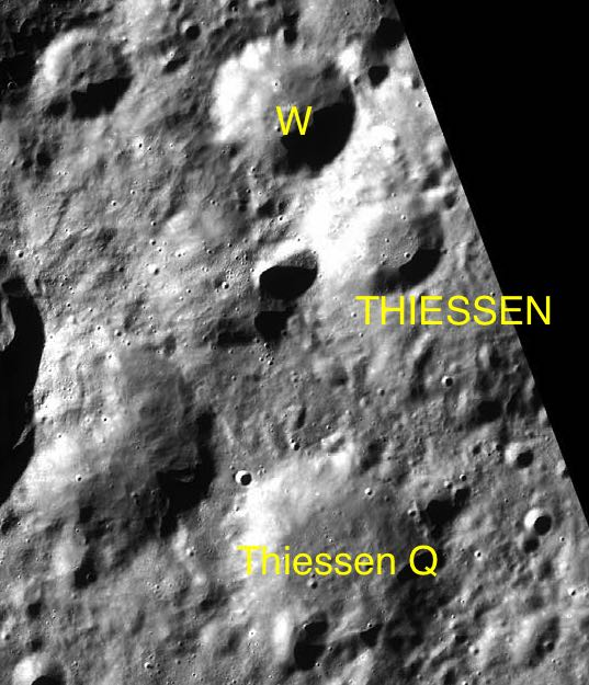 Part of the chart LAC-7 used for the presentation